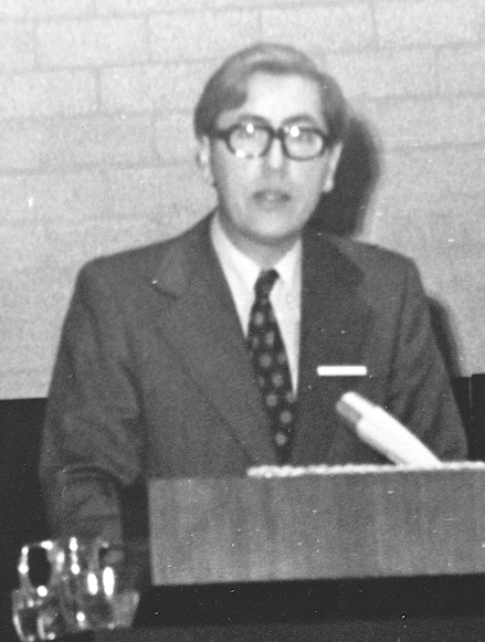 Prof. Jan Lever, speaking at the 40 yrs jubilee of the Netherlands Malacological Society.